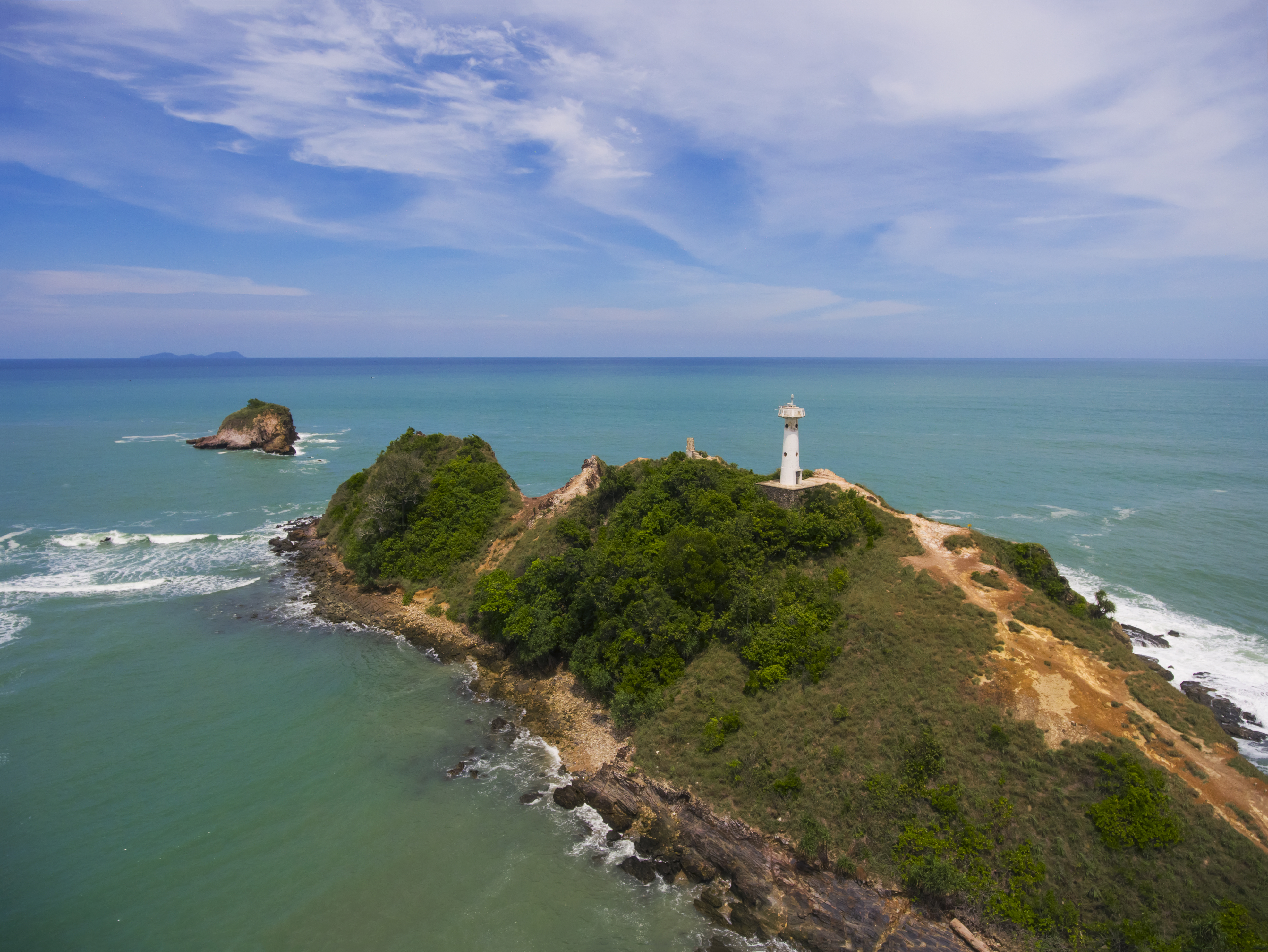 Mu Ko Lanta National Park, Krabi Province